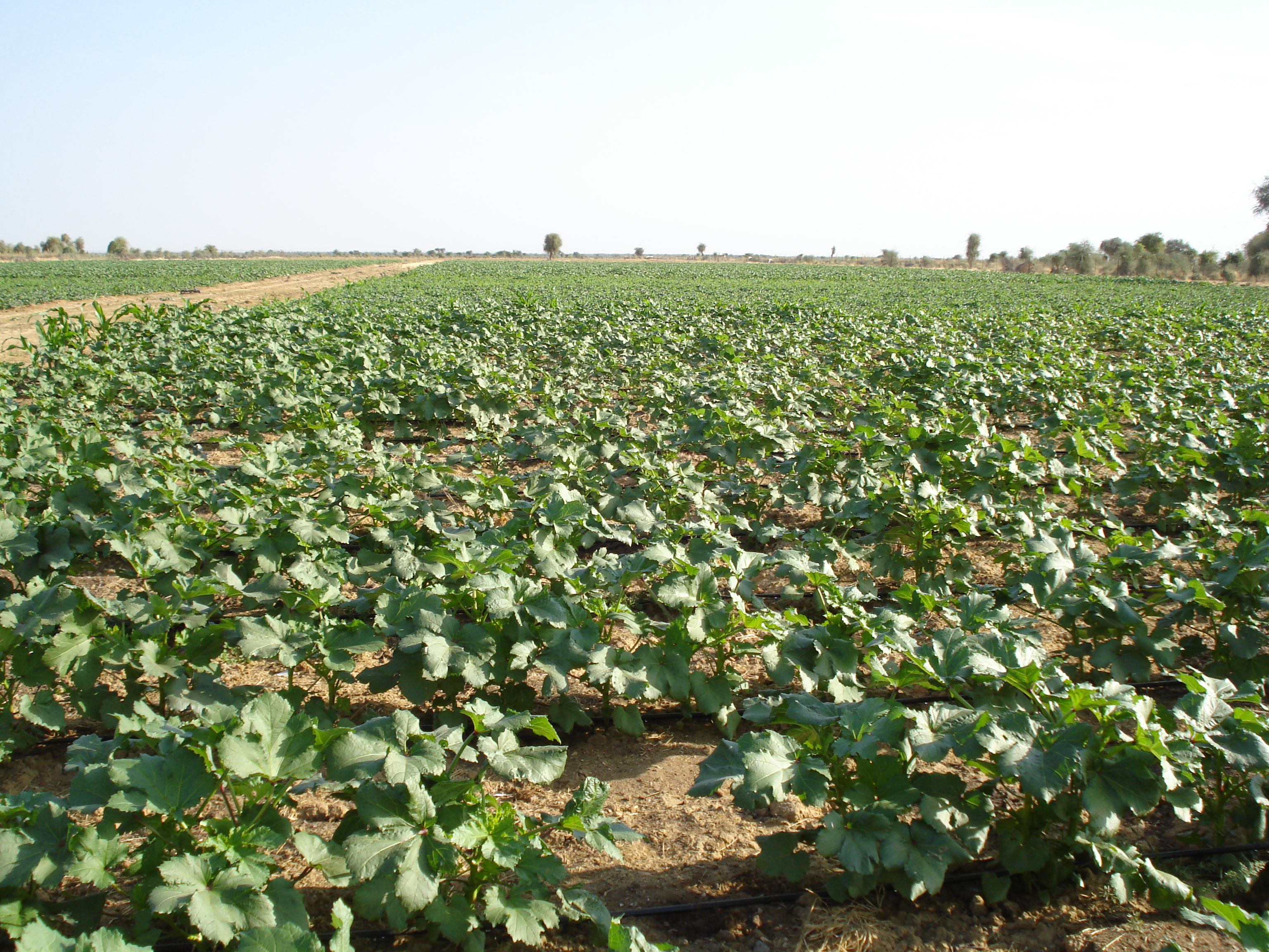 text